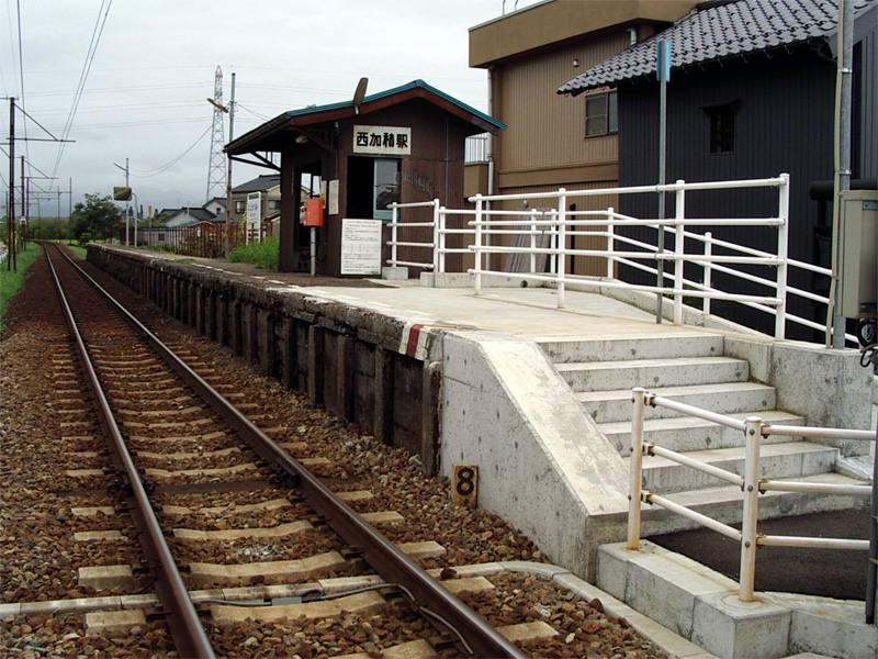 Nishi-Kazumi Station on the Toyama Chiho Railway Main Line in Namerikawa, Toyama Prefecture, Japan